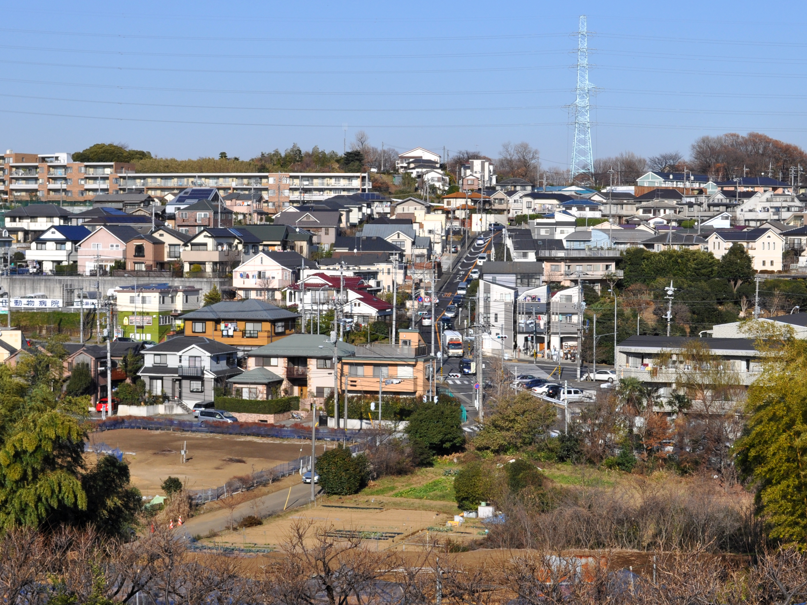 View of Utsukushigaoka-nishi town in Aoba-ku, Yokohama, Japan.